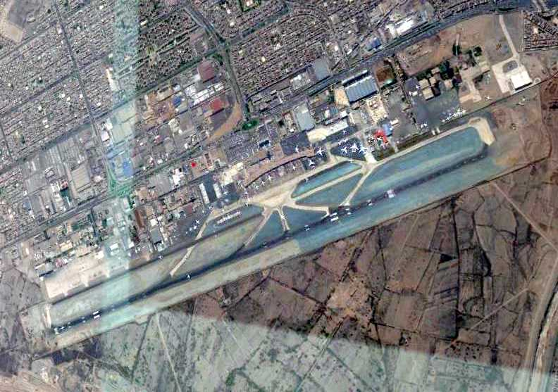 Jorge Chavez International Airport